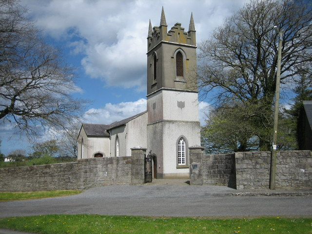 St Mary's, Kilmacshalgan. Church of Ireland parish church. Off the N59, just east of Dromore West.